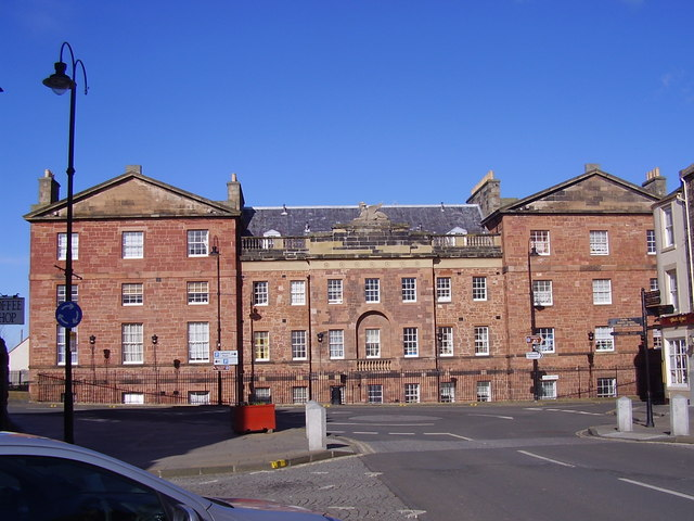 Dunbar - A block of flats Lauderdale House, once known as Dunbar House, home of the Fall family, sold to the Earl of Lauderdale, the became army barracks. Now converted to flats.